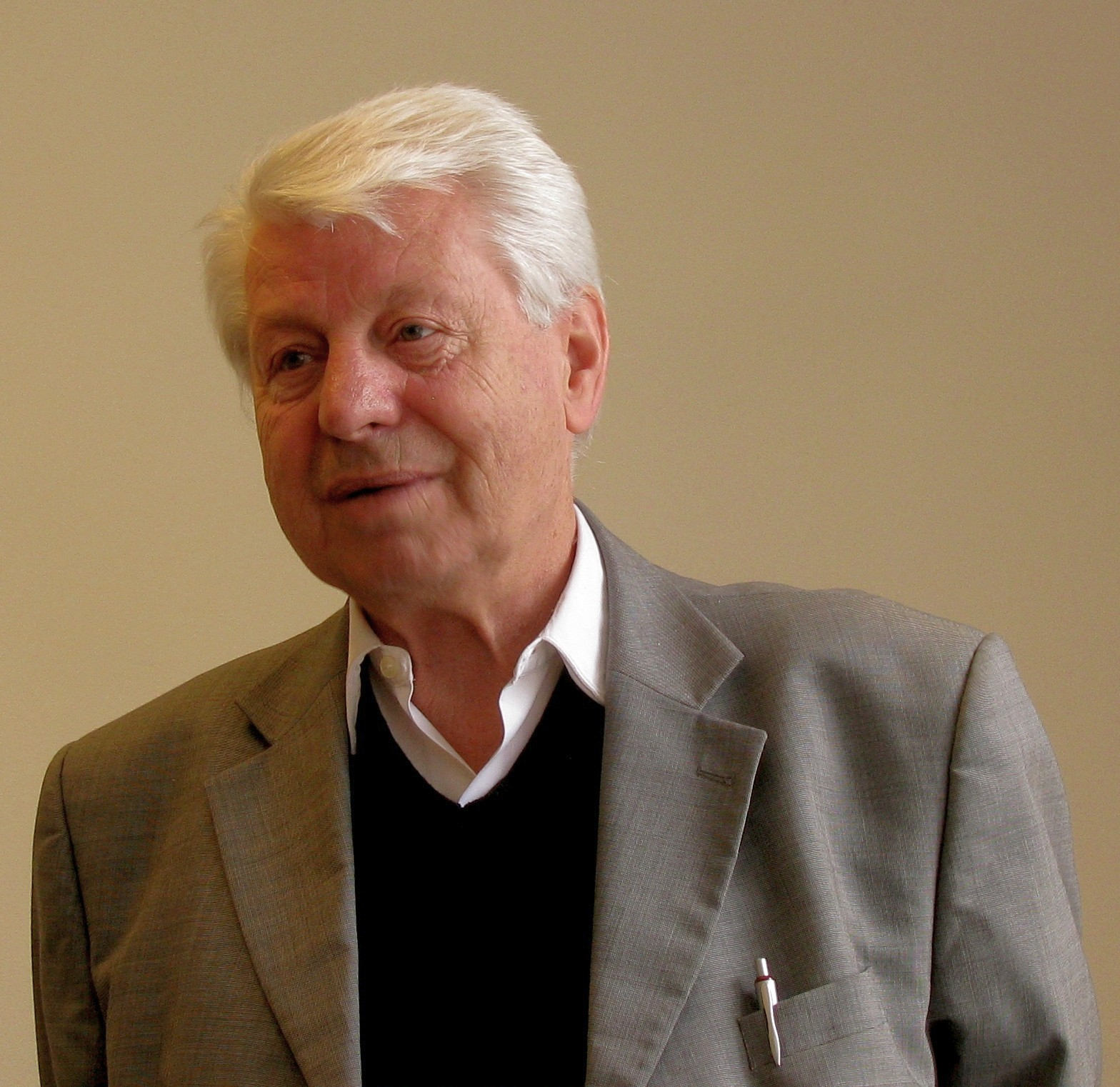 Petr Vopěnka, influental Czech mathematician and founder of Alternative Set Theory.